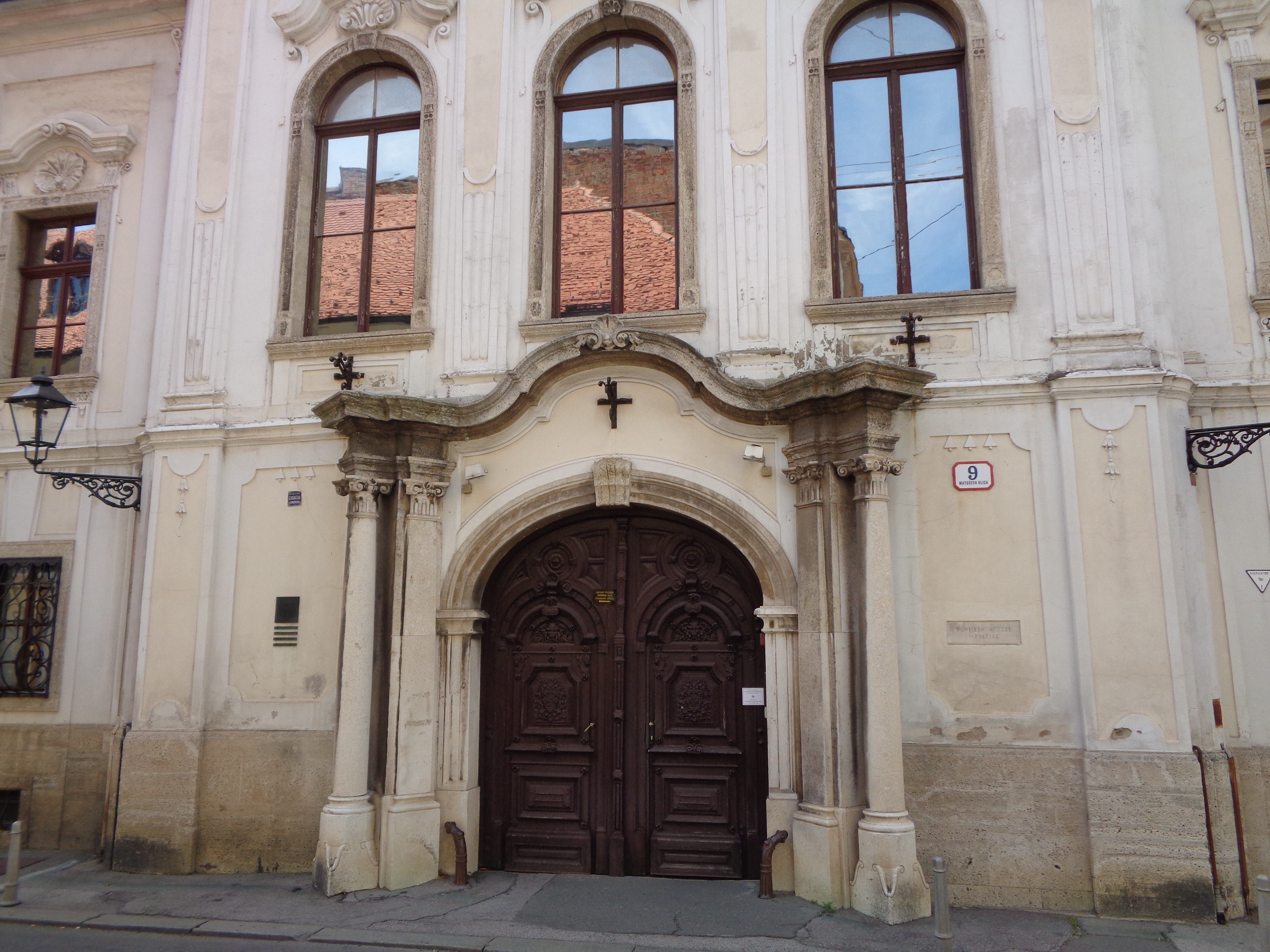 Oršić-Rauch Palace, Gornji grad, Zagreb, Croatia, called also Vojković Palace, built by Count Sigismund Vojković in 1764 - entrance